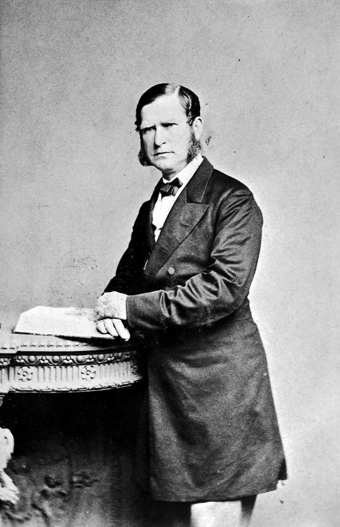 Portrait of Donald Dalrymple Iconographic Collections Keywords: Donald Dalrymple